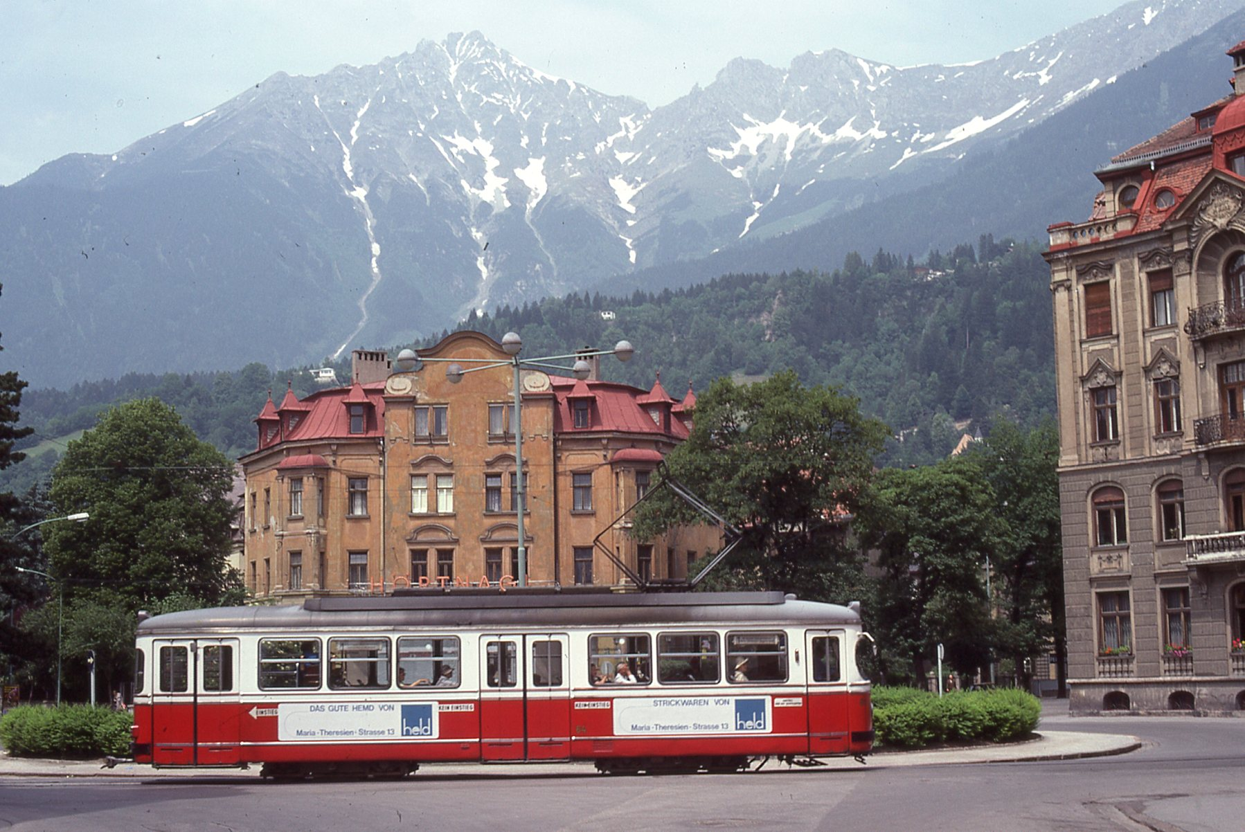 Lohner built 4-axle car on line 1.